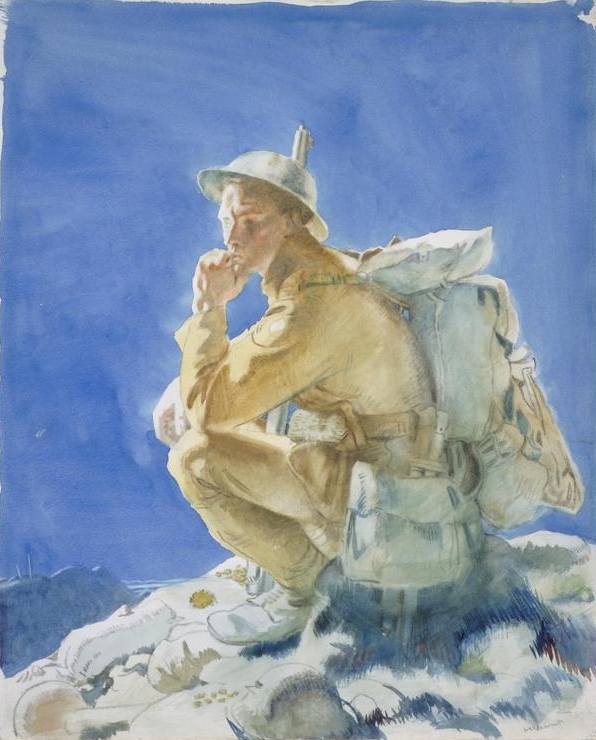 A young soldier in full kit, sitting on a rock on a mound. With his hand held pensively to his chin, his pose evokes 'The Thinker'. He sits against a background of dark blue sky, his features illuminated by a light shining down on him from the top left of the composition.